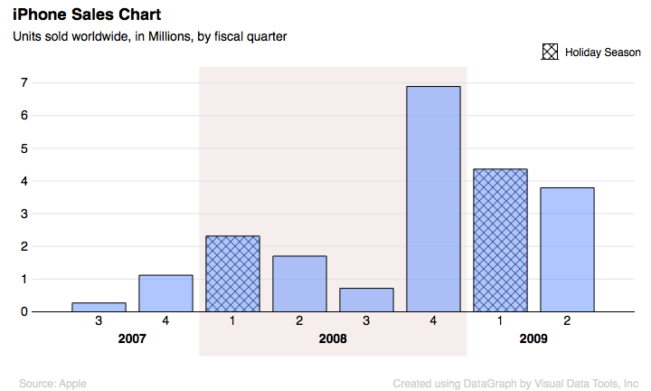 iPhone sales per fiscal quarter